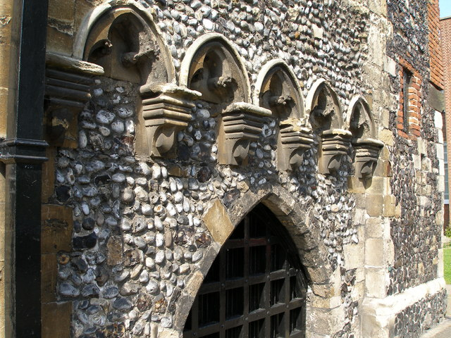 Architectural detail on the Toll House